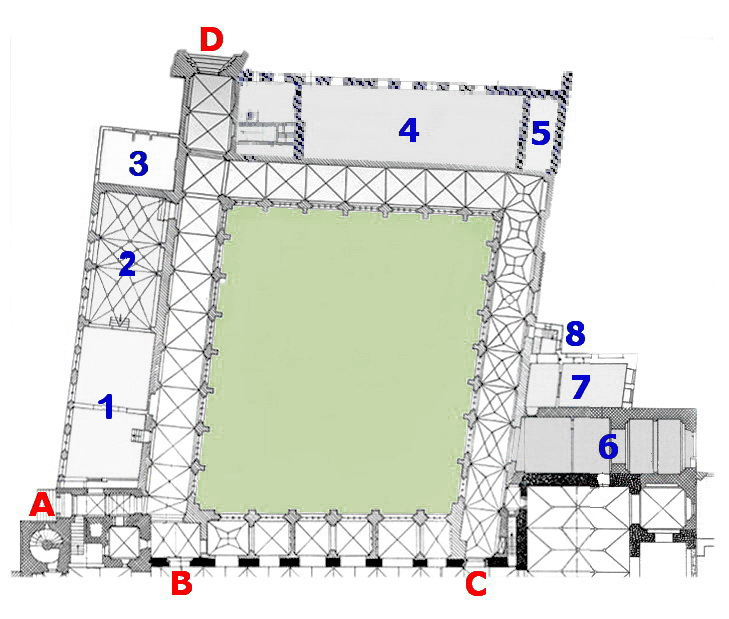 Groundplan of the cloisters with annexes of the Basilica of Saint Servatius in Maastricht, the Netherlands. Highlighted in green: the cloister yard. In yellow, pink and orange: the Sacristy (1), the Day Chapel (2), the Rectory (3), the Canons' Cellar (4), the Visitor Centre (5), the Double Chapel (6) and the annexes to the Treasury (7, 8). In red: the 3 Romanesque portals (A, B and C) and the Gothic North Portal (D). Image based on a file donated to Wiki Commons by Rijksdienst voor het Cultureel Erfgoed on 7 January 2013.